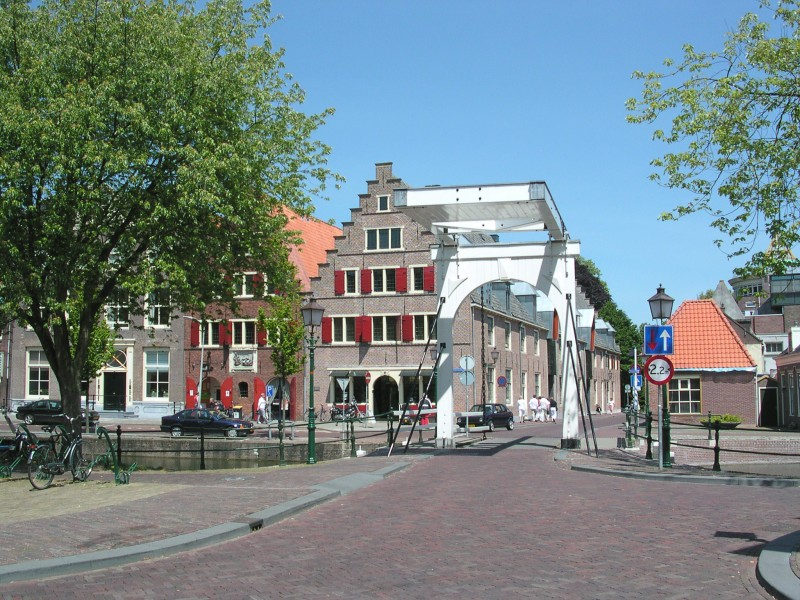 Typerend voor de stad Hoorn. Pakhuizen van de VOC anno 1606. Typical scene of the city of Hoorn.